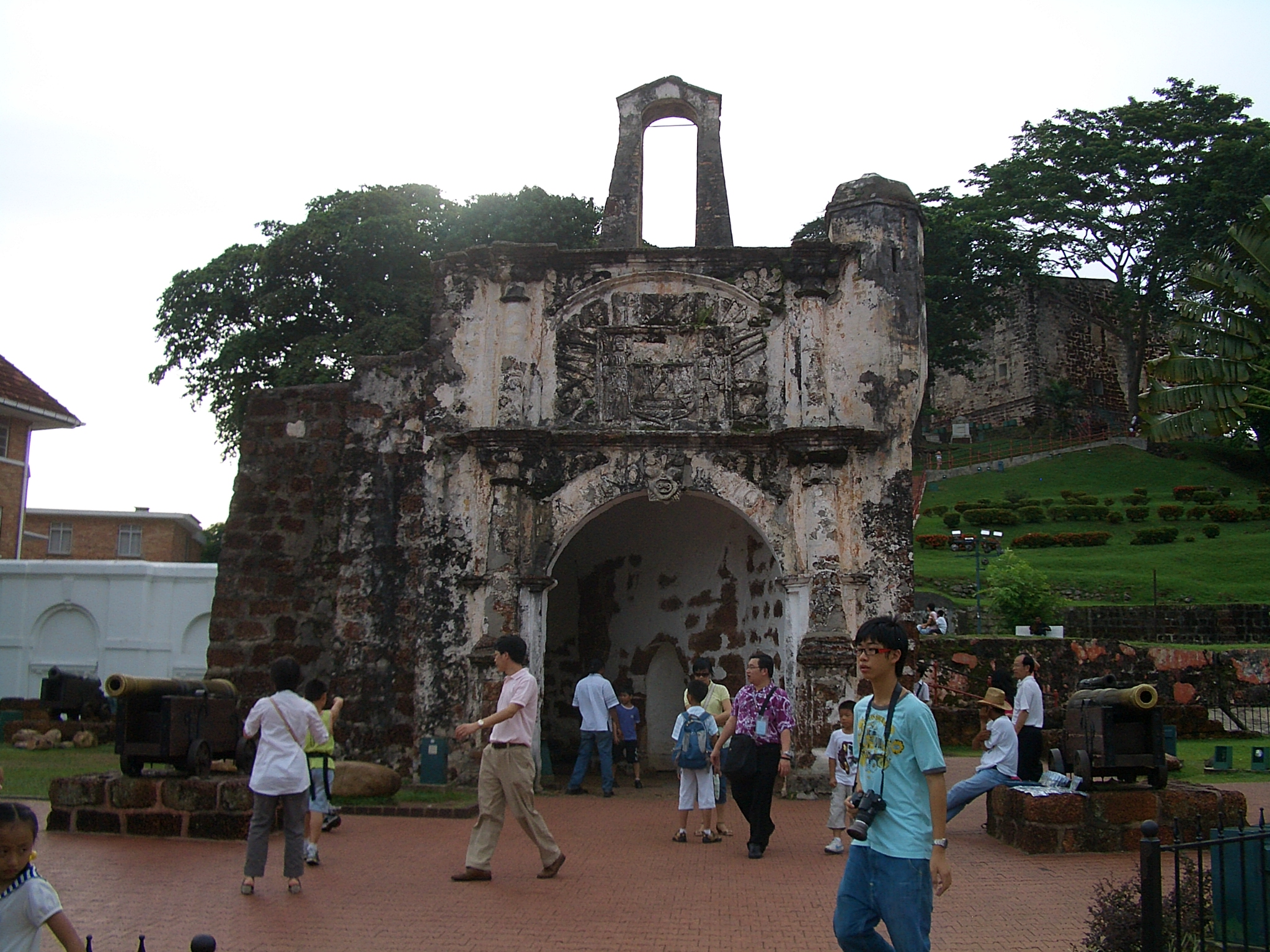 Porta de Santiago